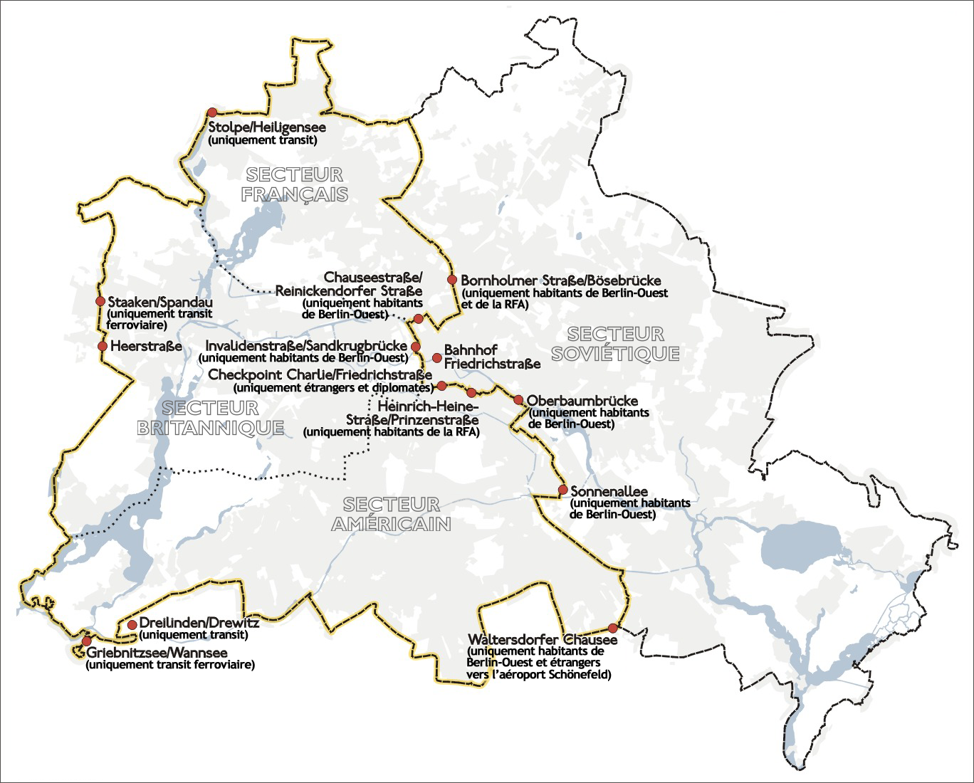 Map showing the Berlin Wall and the border control checkpoints until 1989